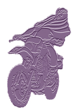 Stångebroslagets logga